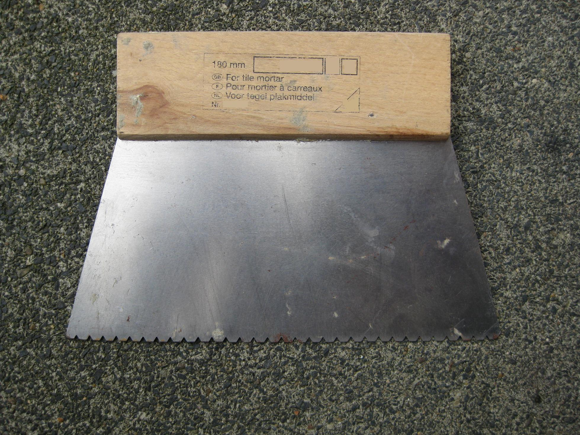 Adhesive comb or tile adhesive spreader.